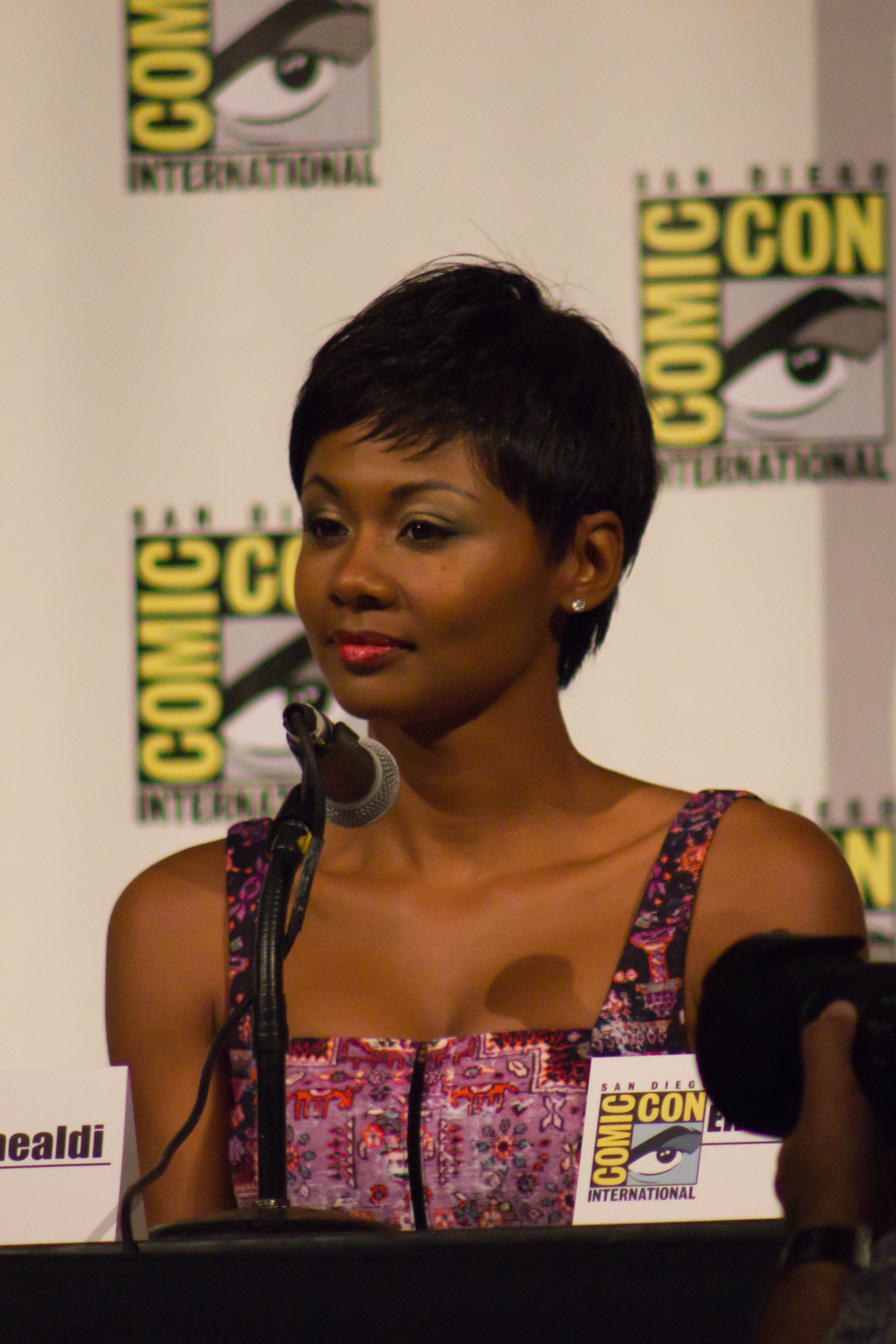 Emayatzy Corinealdi Taken at the 2015 Comic-Con International in San Diego.